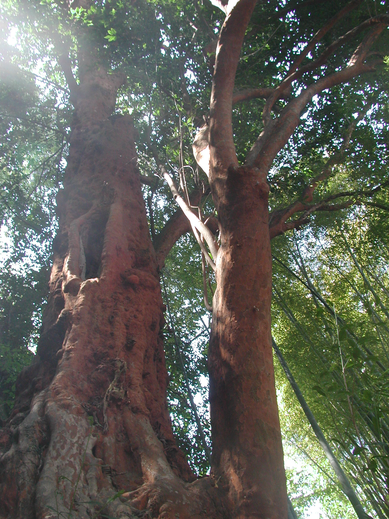 Hayakawa no Biranjyu (Prunus zippeliana in Hayakawa), Japan's natural monument. (Hayakawa, Odawara-shi, Kanagawa)